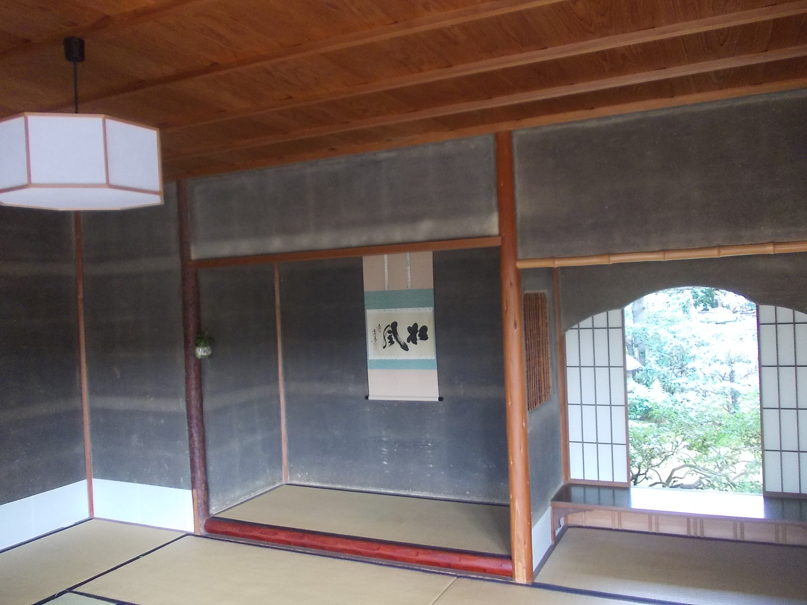 Shofu-en is a Japanese garden and park, Chuo-ku, Fukuoka, Japan